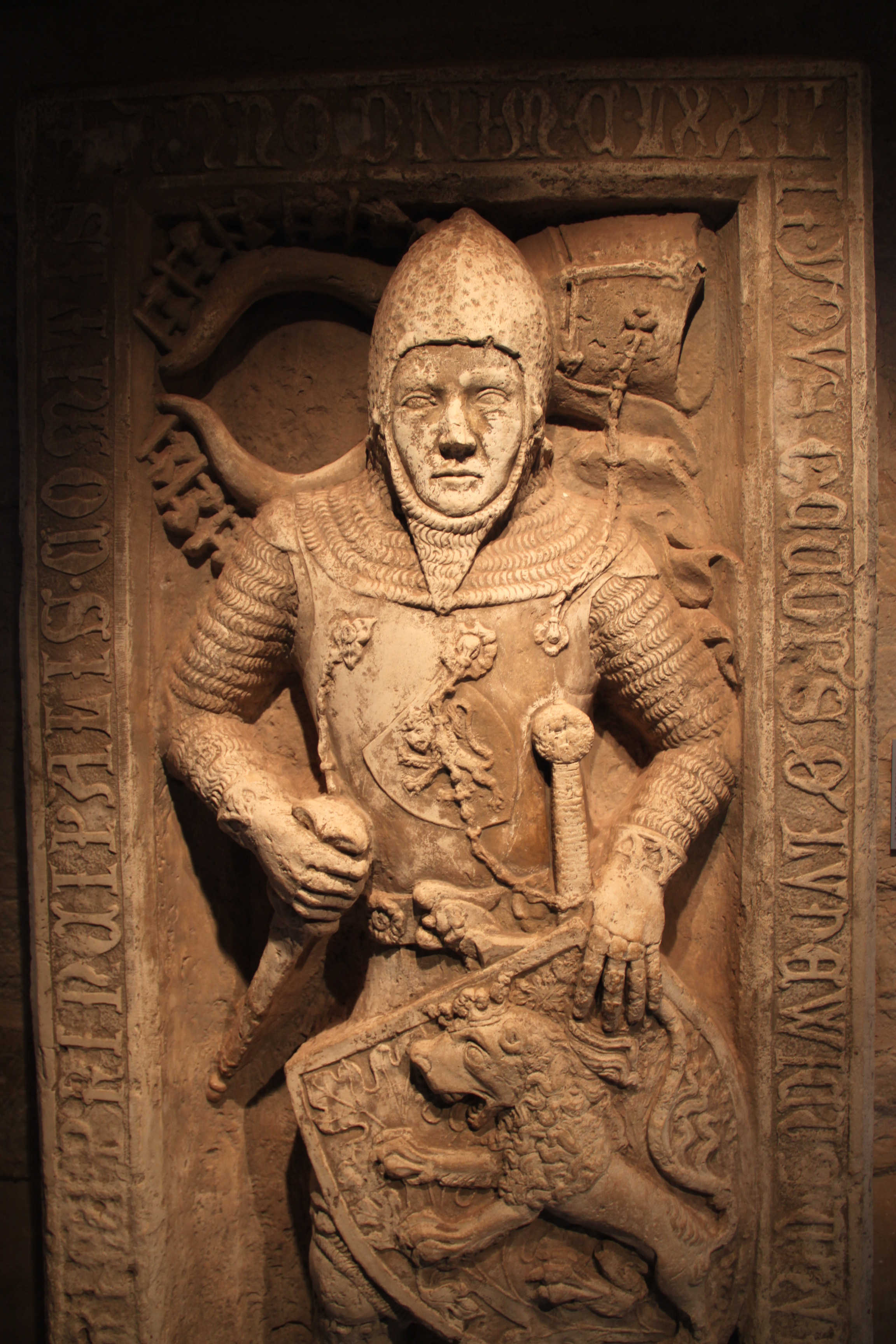 Memorial slab (tomb cover) of Ludwig II, the iron one